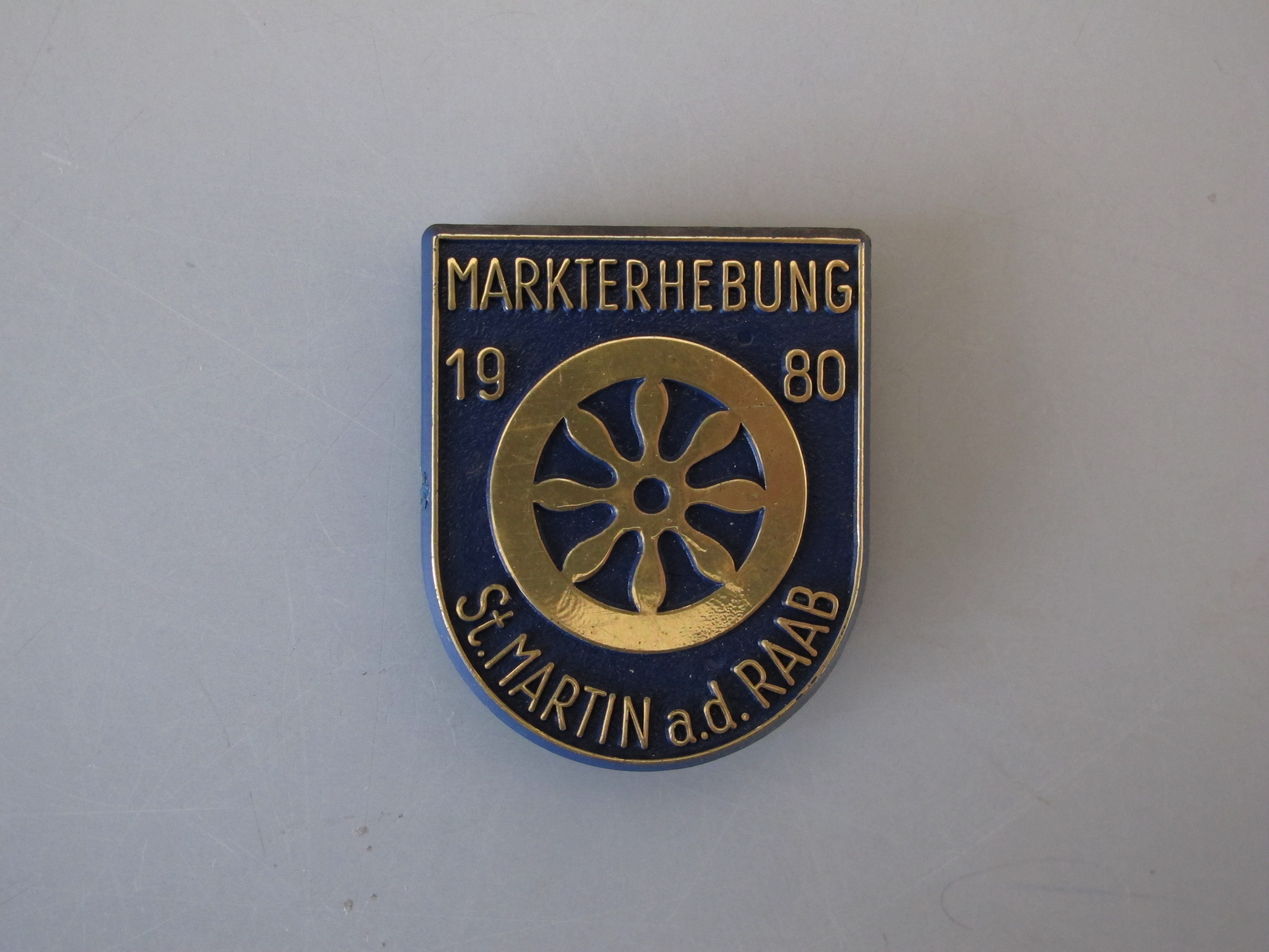 St. Martin an der Raab